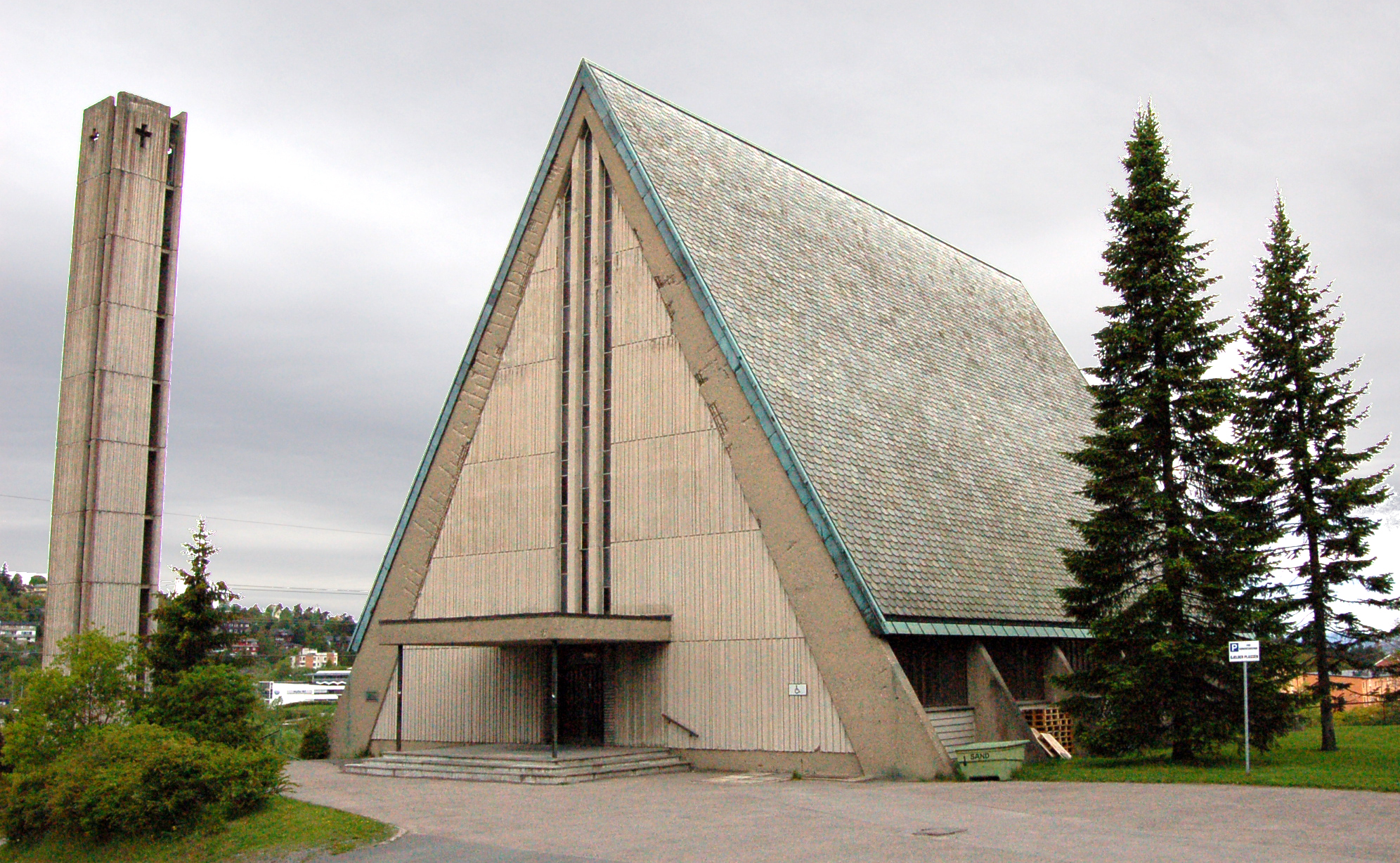 Manglerud kirke, a church in Oslo, Norway.